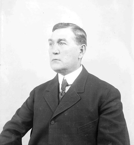 Baseball umpire Hank O'Day, facing to left of camera, sitting in front of a backdrop, dark exposure